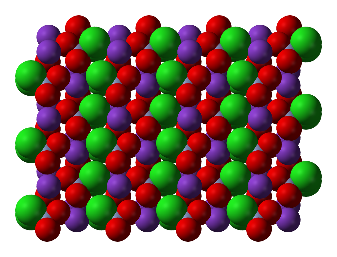 Space-filling model of part of the crystal structure of potassium chlorochromate, KCrO3Cl. Single crystal X-ray diffraction data from U. Kolitsch (2002). "Redetermination of potassium chlorochromate, KCrO3Cl". Acta. Cryst. E58 (11): i105-i107. Image generated in Accelrys DS Visualizer.